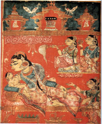 Detail of a leaf with, The Birth of Mahavira, from the Kalpa Sutra, c.1375-1400. gouache on paper. Indian.